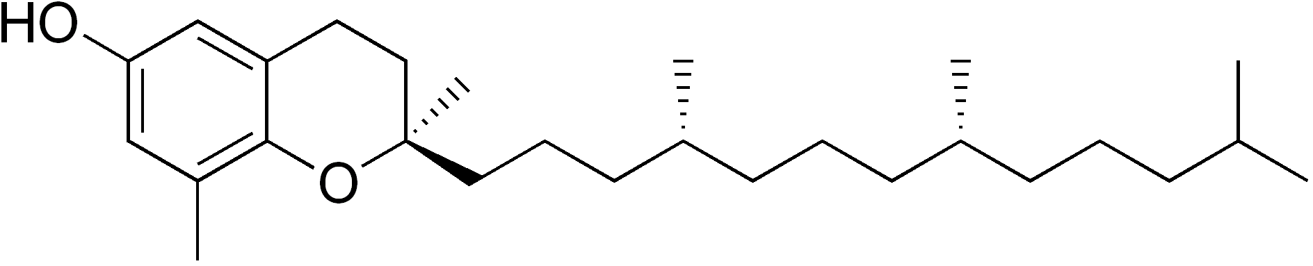 chemical structure of delta-tocopherol